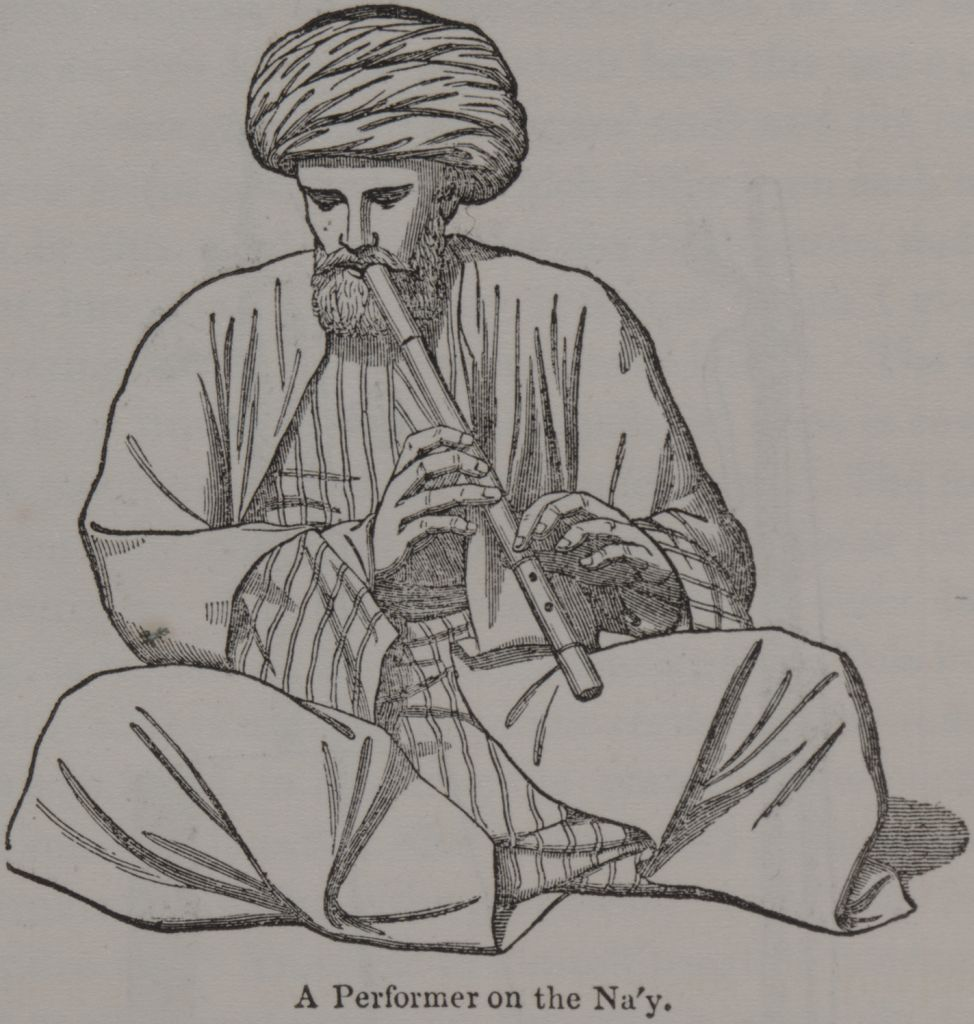 A man playing Na'y. Engraving (prints).